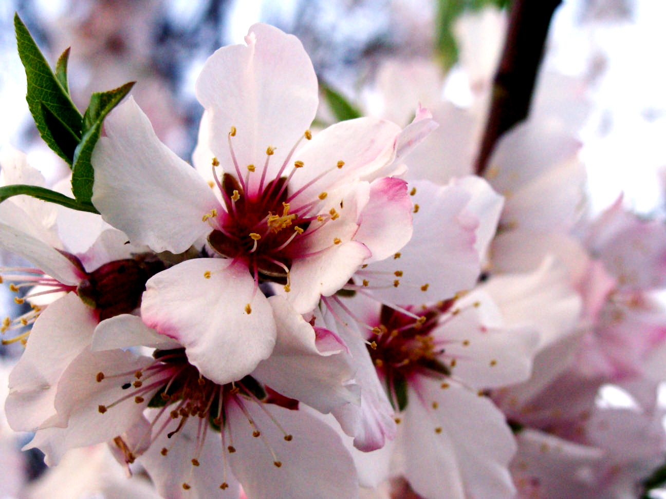 Flowers during spring that bloom into Almonds. Picture taken at Badamwari Srinagar